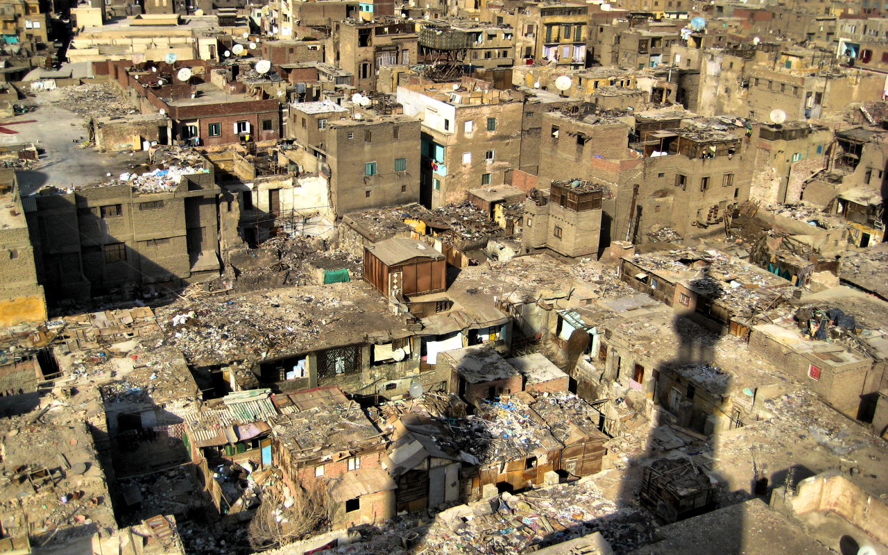 Cairo Rooftops